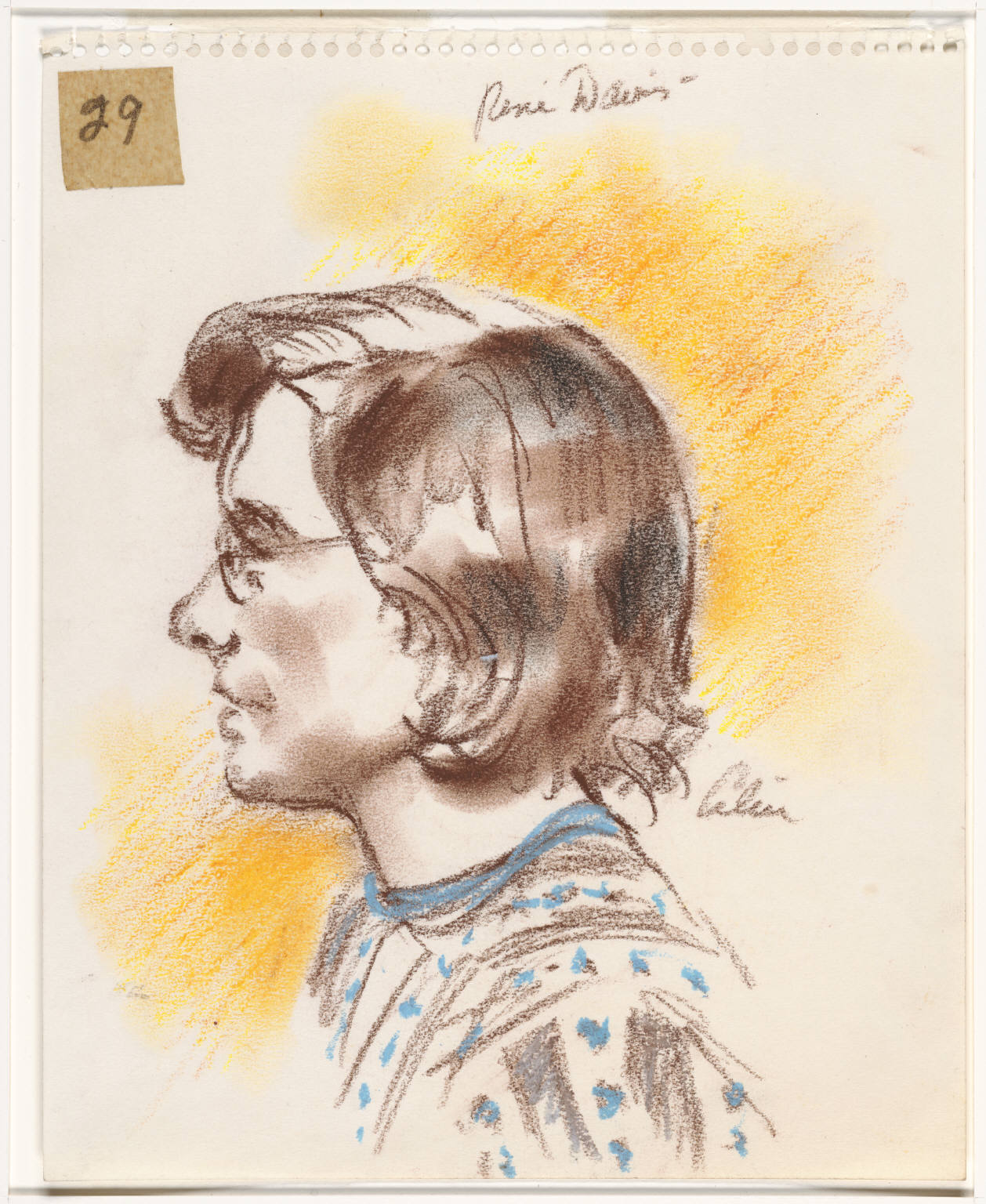 Author/Creator: Seale, Bobby, 1936- Markle, Arnold. Date: 1971. Part of: Robert Templeton Drawings and sketches related to the trial of Bobby Seale and Ericka Huggins, New Haven, Connecticut. Physical Description: 1 drawing col. ill., oil pastels 25.2 x 20.4 cm. Folder or box number: Box 3 Subjects: Davis, Rennie Black Panther Party. African American political activists. Black militant organizations. Black power. Political activists. Trials (Conspiracy) Trials (Kidnapping) Trials (Murder) Connecticut. Superior Court (New Haven County) Genre/Form: Drawings Portraits Pastels (Visual works) Cite as: Yale Collection of American Literature, Beinecke Rare Book and Manuscript Library Repository: Beinecke Rare Book & Manuscript Library, Yale University Bibliographic Record Number: 2029966 Call Number: JWJ MSS 33 View our Record: Permalink Flickr data on 2011-08-26: License: CC BY-SA 2.0 User: Beinecke Library